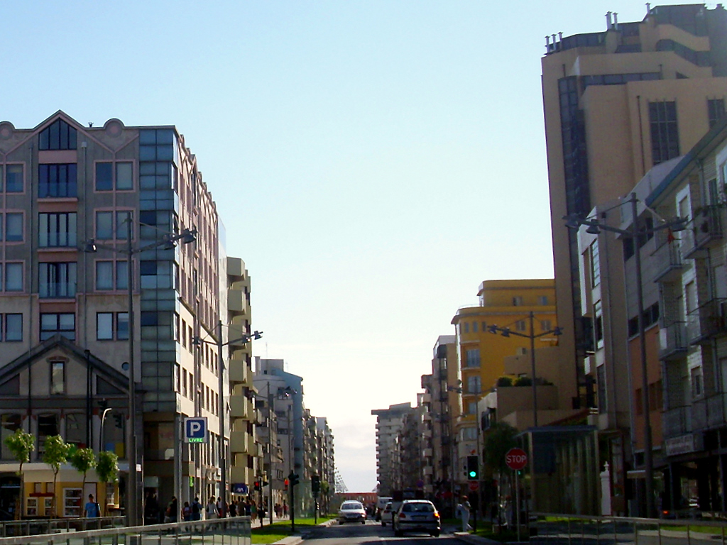 Mousinho de Albuquerque Avenue in Downtown Póvoa de Varzim